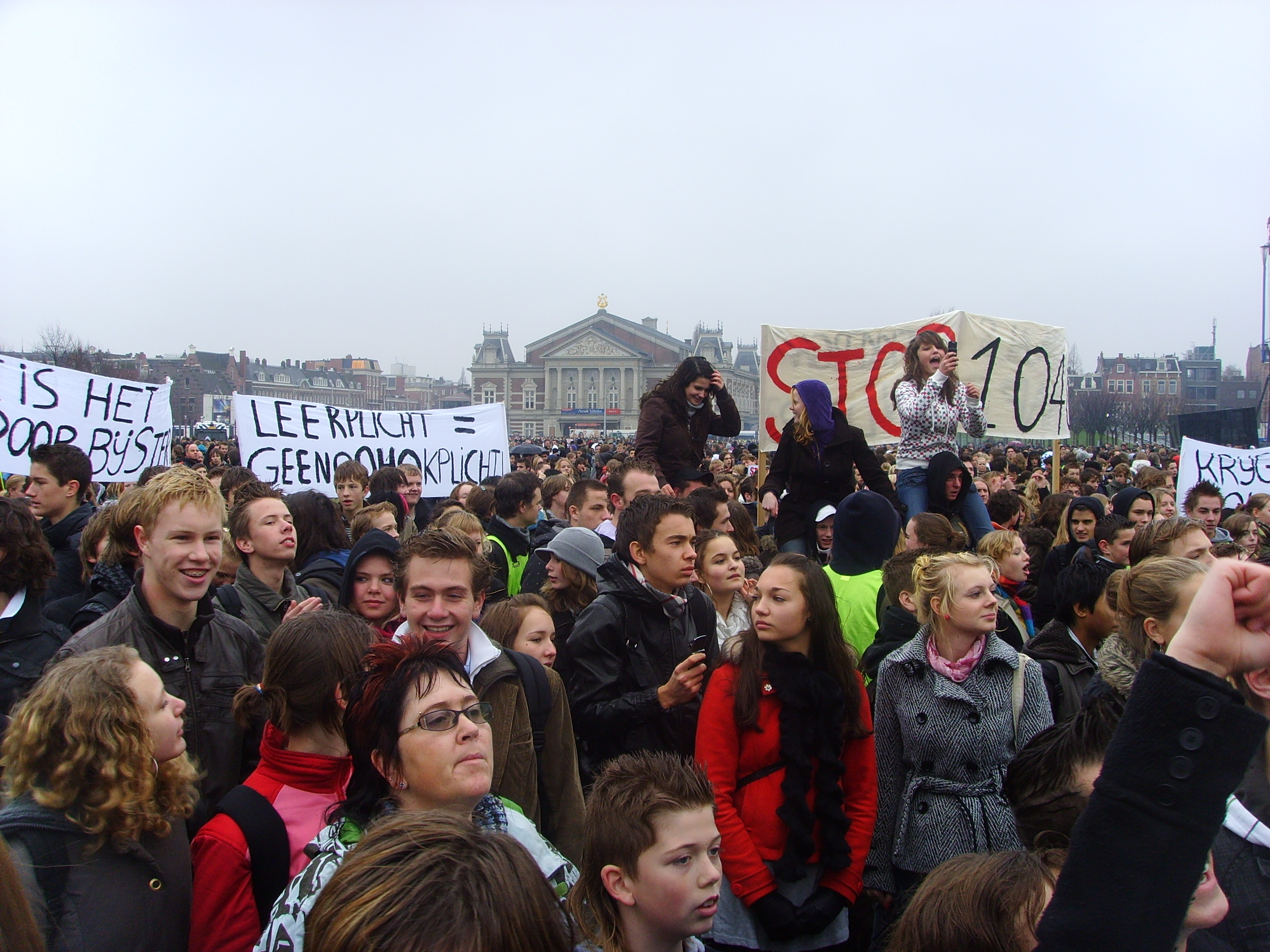 Dutch students protesting against the "1040 hours standard" at the Museumplein, Amsterdam